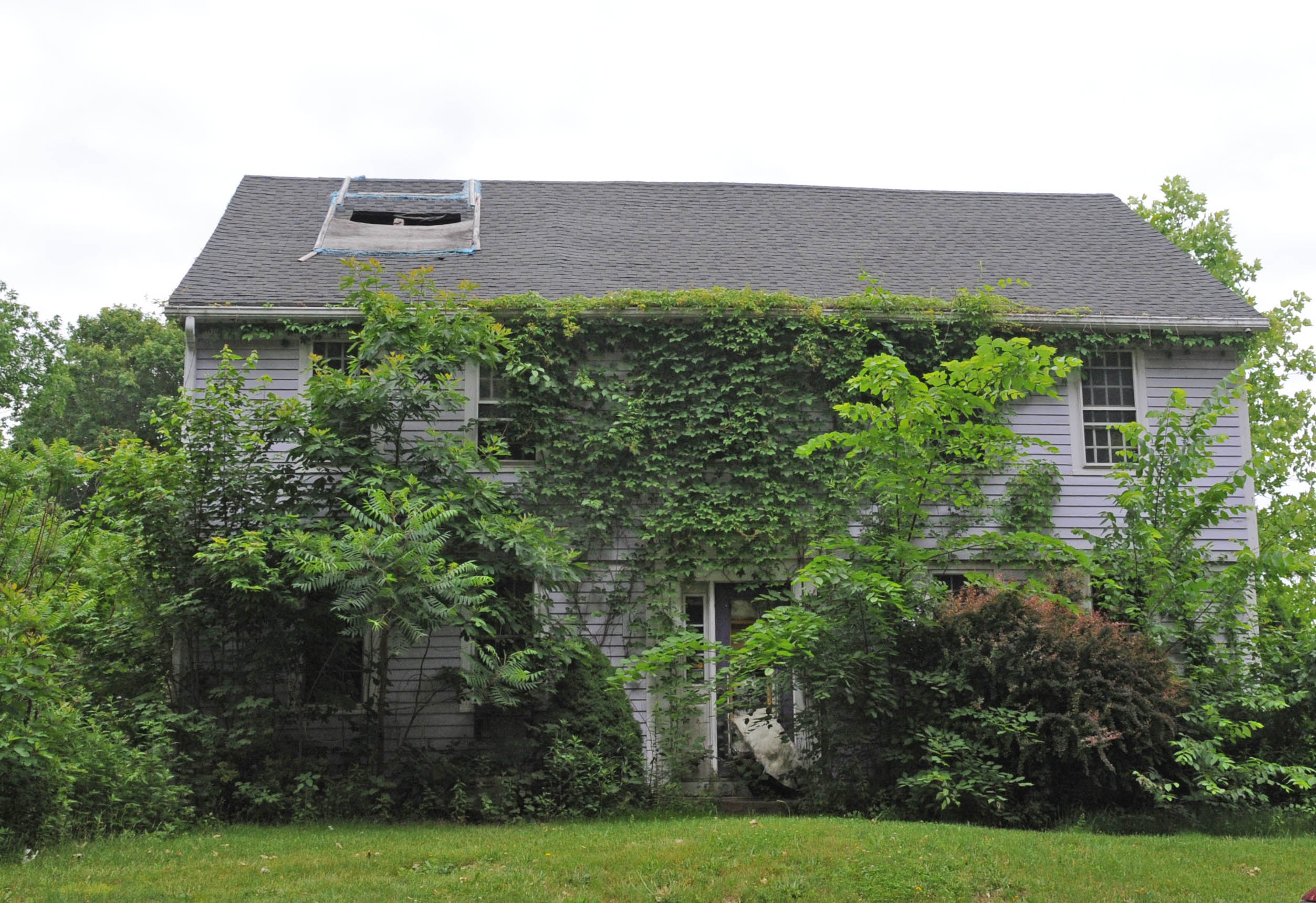 BUILT CIRCA 1730. THE HOUSE IS LOCATED ON THE GROUNDSOF THE MONTESSORI SCHOOL BUT APPEARS ABANDONED.